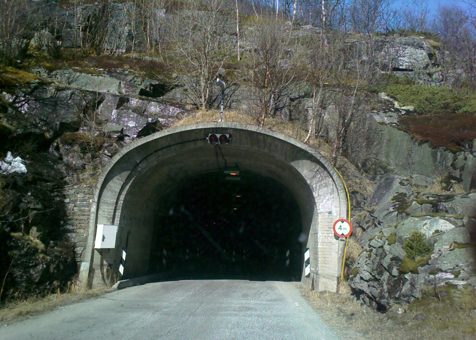 The eastern entrance of Berdalstunnelen in Aurland, Sogn og Fjordane